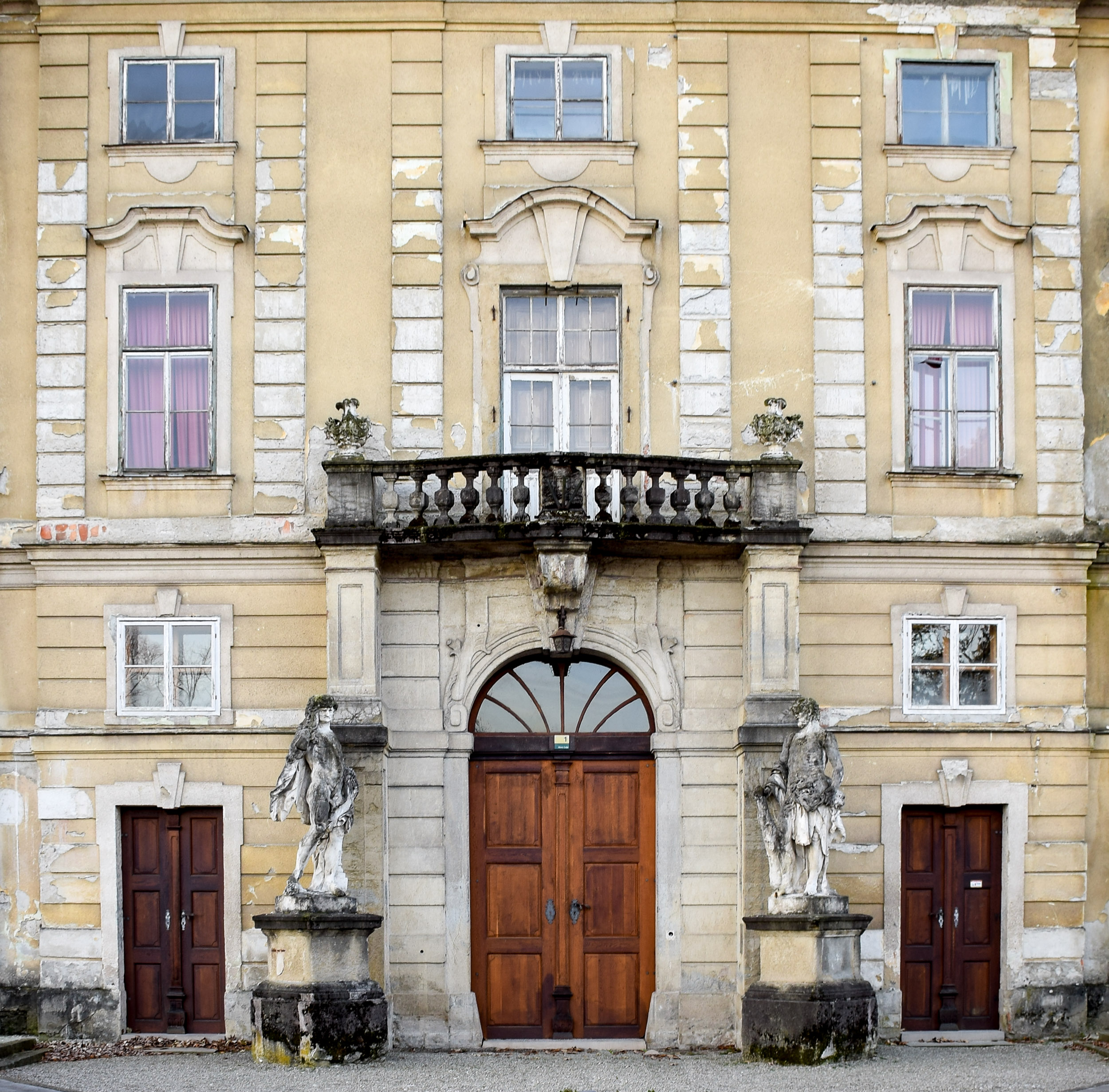 Dvorec_Novo_Celje This media shows a cultural heritage object of Slovenia with the EŠD number: 491